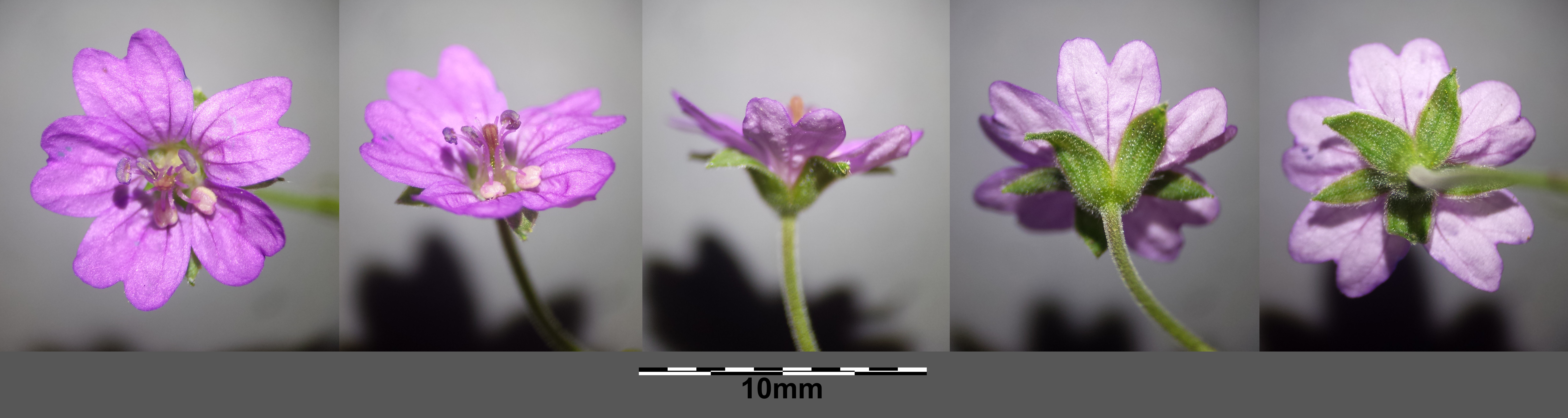 Flower Taxonym: Geranium pyrenaicum ss Fischer et al. EfÖLS 2008 ISBN 978-3-85474-187-9 Location: Jedleseer Friedhof, Vienna-Floridsdorf - ca. 160 m a.s.l. Habitat: lawn